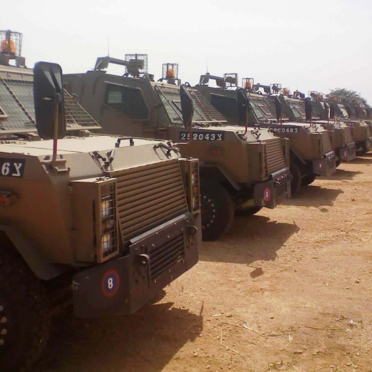 Row of Ze'ev (Wolf) armored vehicles